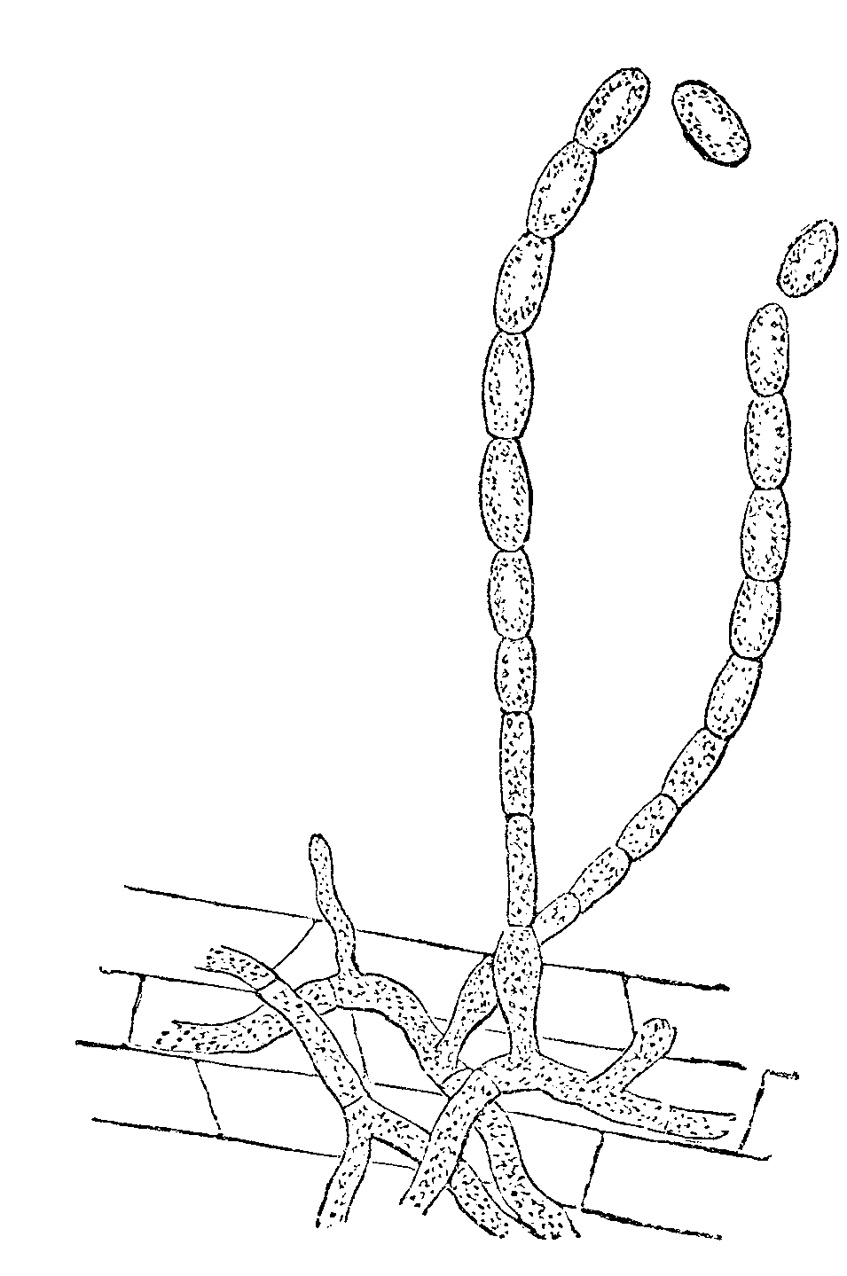 Erysiphe sp. (oidium)